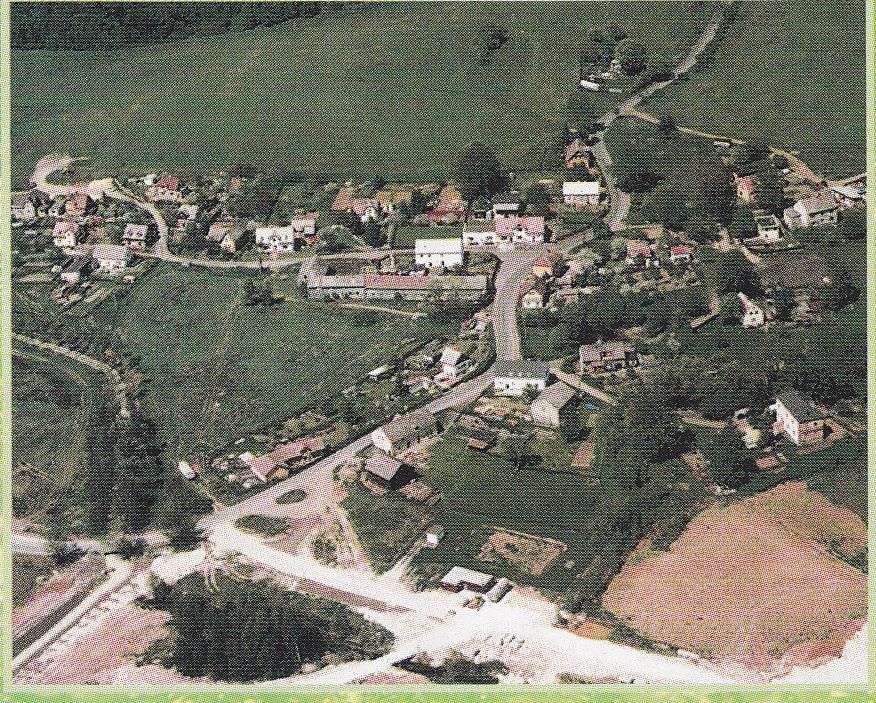 Jimlíkov from the aerial view